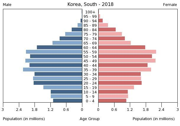 The population pyramid of South Korea illustrates the age and sex structure of population and may provide insights about political and social stability, as well as economic development. The population is distributed along the horizontal axis, with males shown on the left and females on the right. The male and female populations are broken down into 5-year age groups represented as horizontal bars along the vertical axis, with the youngest age groups at the bottom and the oldest at the top. The shape of the population pyramid gradually evolves over time based on fertility, mortality, and international migration trends.